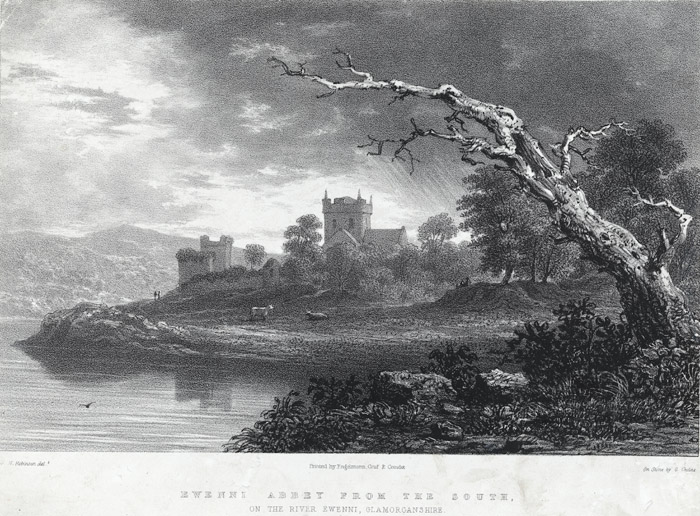 A view of Ewenny Abbey in the evening on a showery day. Cattle are in the foreground.